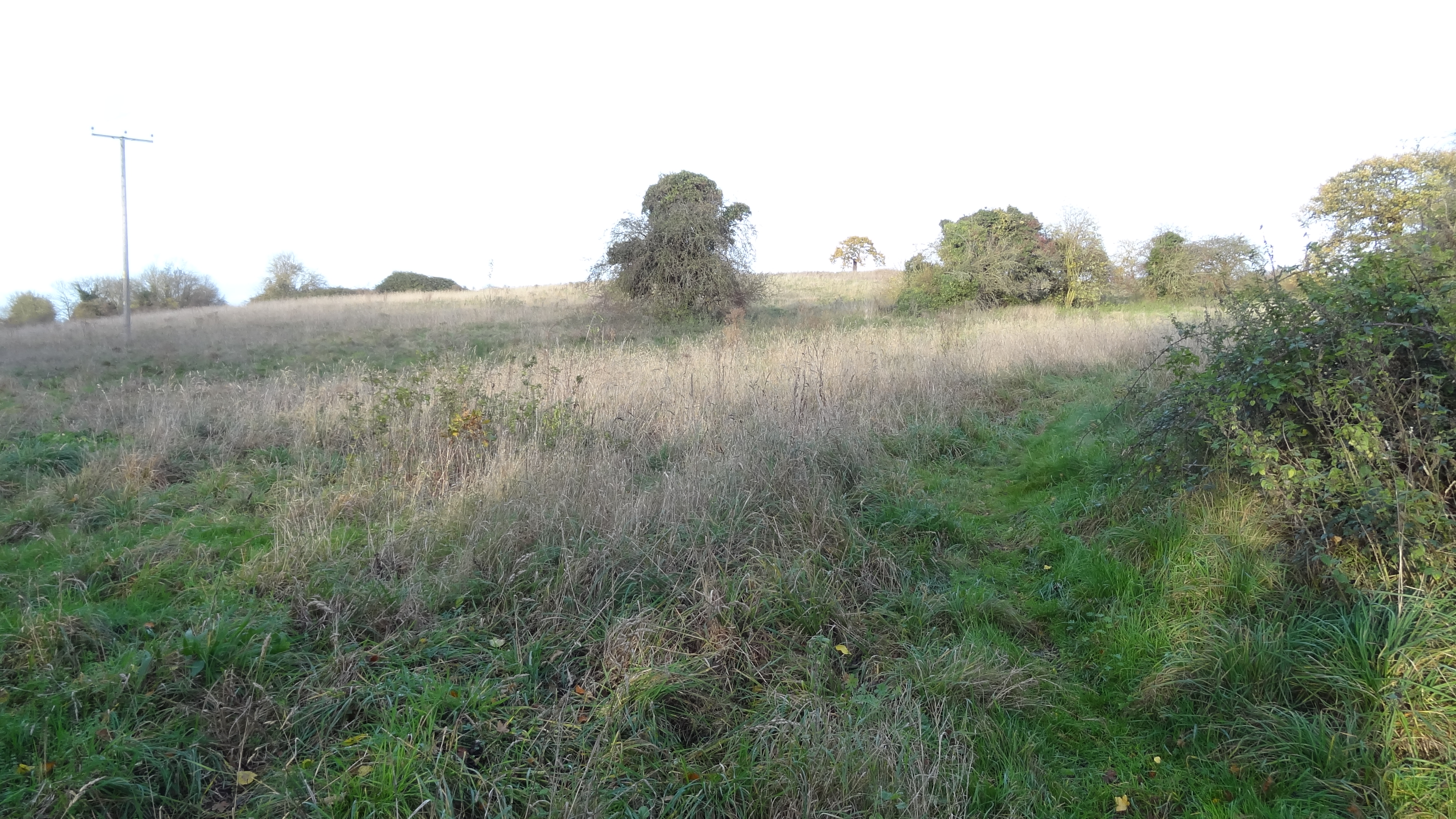 Coppermill Down, Mid Colne Valley SSSI, Harefield, Hillingdon, London